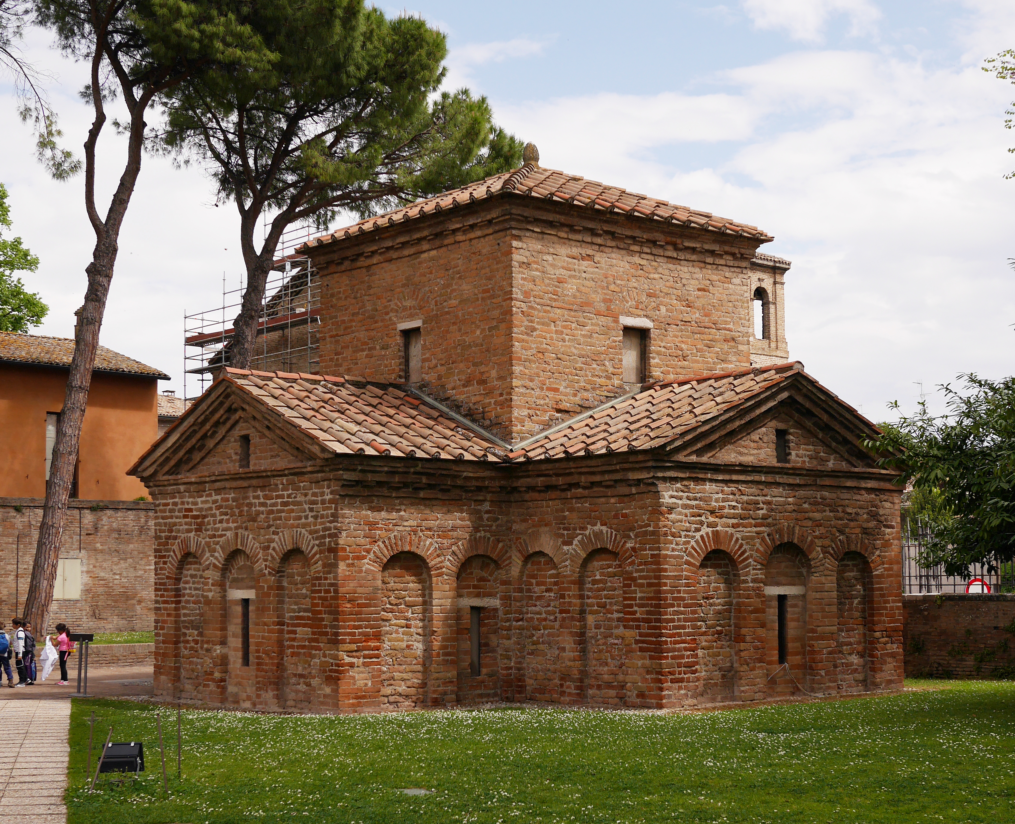 Mausoleum of Galla Placidia in Ravenna. UNESCO World heritage site.